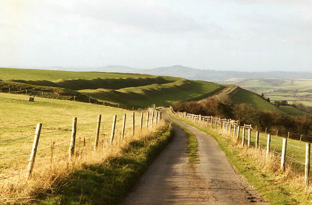 Eggardon hillfort. Rampart of hill fort visible by minor road running north west to Powerstock